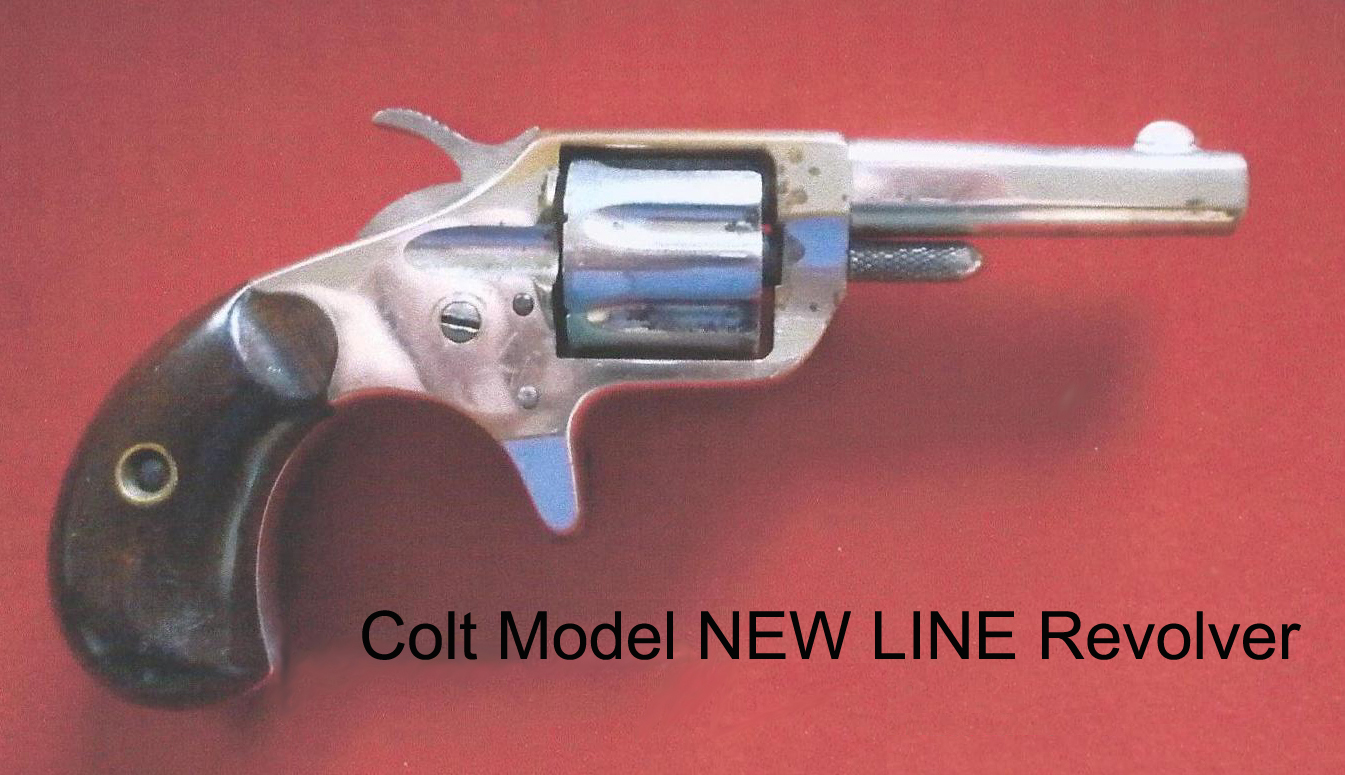 Colt NEW LINE Revolver